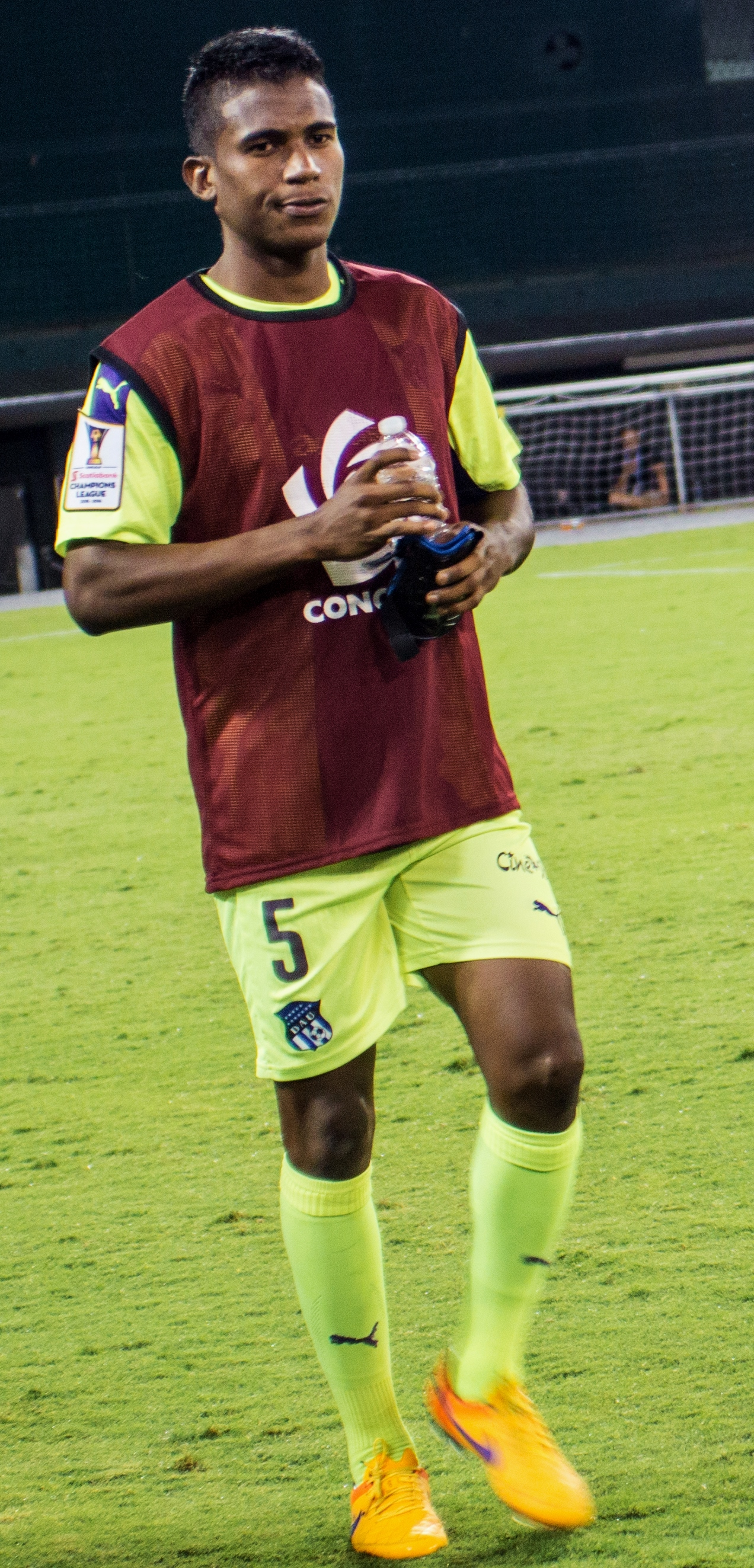 2015/16 Scotiabank CONCACAF Champions League (DC United vs. Deportivo Arabe Unido) (Sept. 2015) Leslie Heraldez